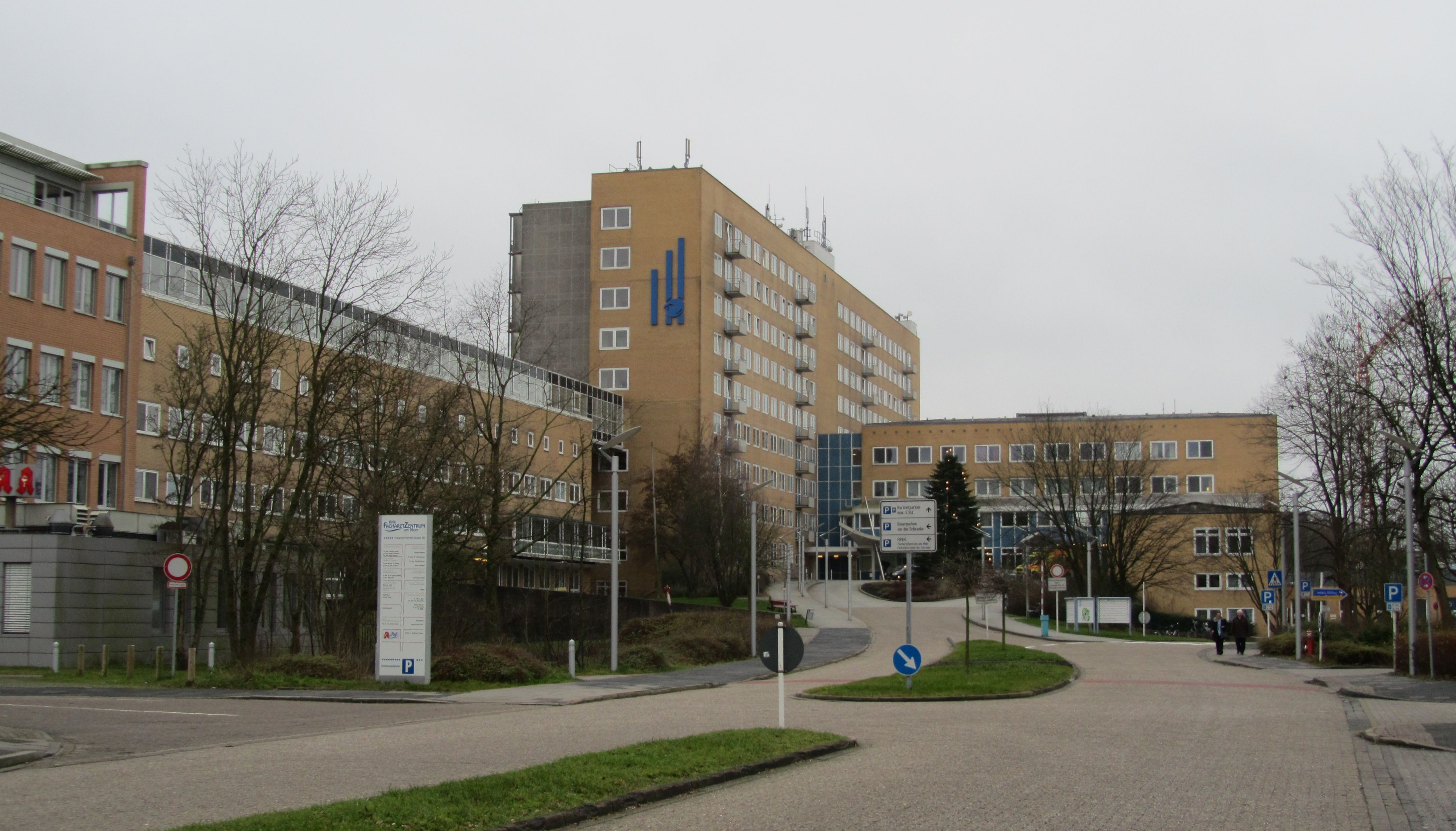 Reinhard Nieter hospital, Wilhelmshaven, Germany.